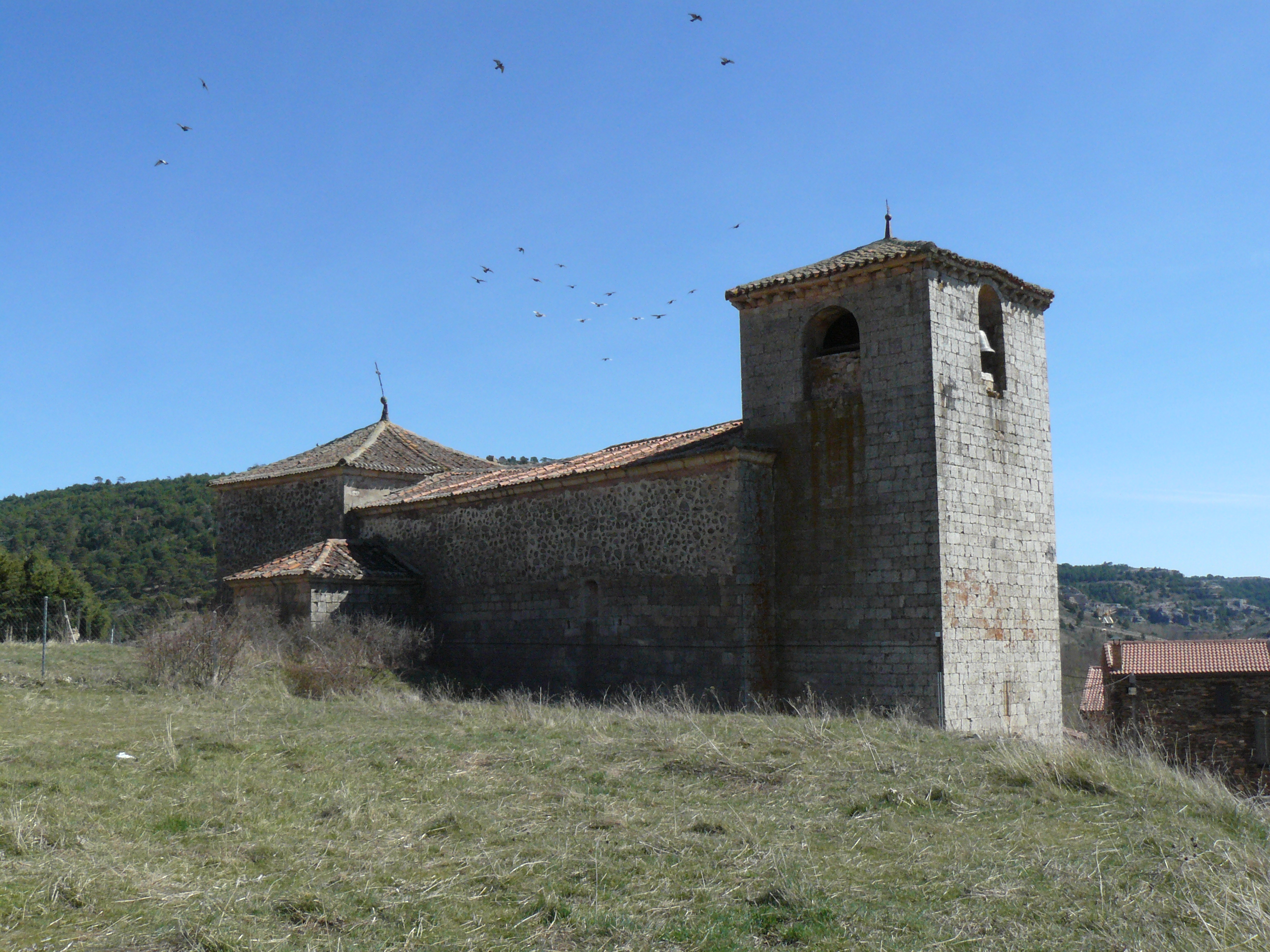 View of the church of San Pedor, Grado del Pico, Segovia (Spain).